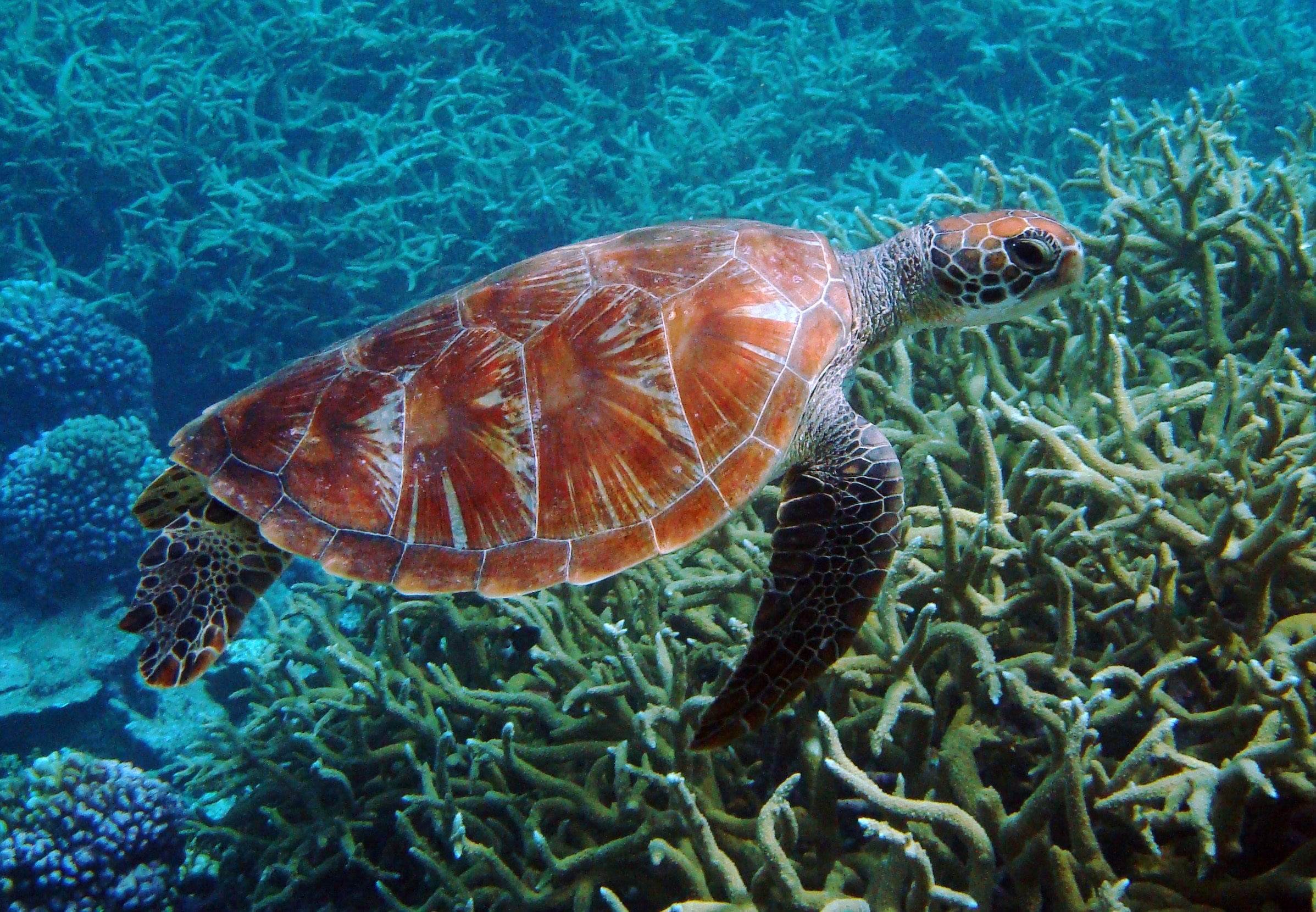 Green turtles are commonly observed at Palmyra Atoll National Wildlife Refuge.